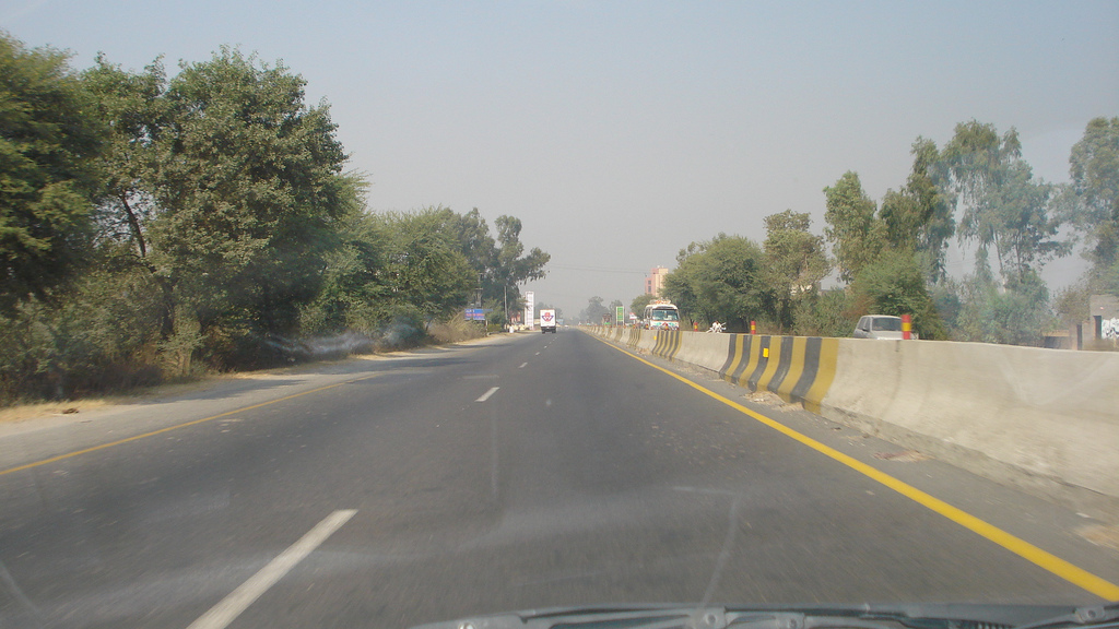 The Grand Trunk Road Northbound near Kharian